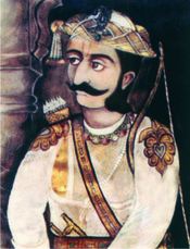 First Shrimant Raje Raghuji Maharaj Bhonsle was born 14 february 1695 in Satara.he was nephew of Chatrapati Shivaji Maharaj Bhonsle.